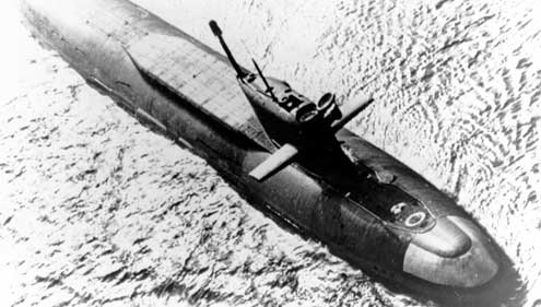 Photo of a Soviet Navy ballistic missile submarine of the Navaga or Nalim class (NATO-Code Yankee class).